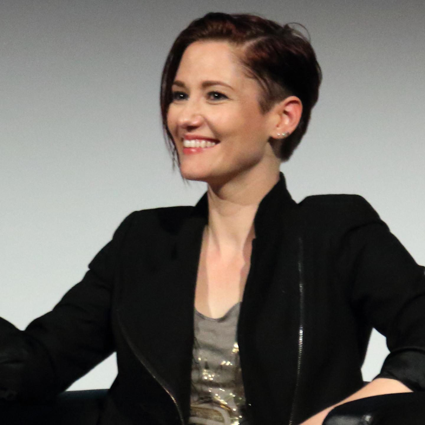 Please respect the time spend on this pics, don't try to remove the copyright. Thank you! :) @mae_mclotz (twitter)